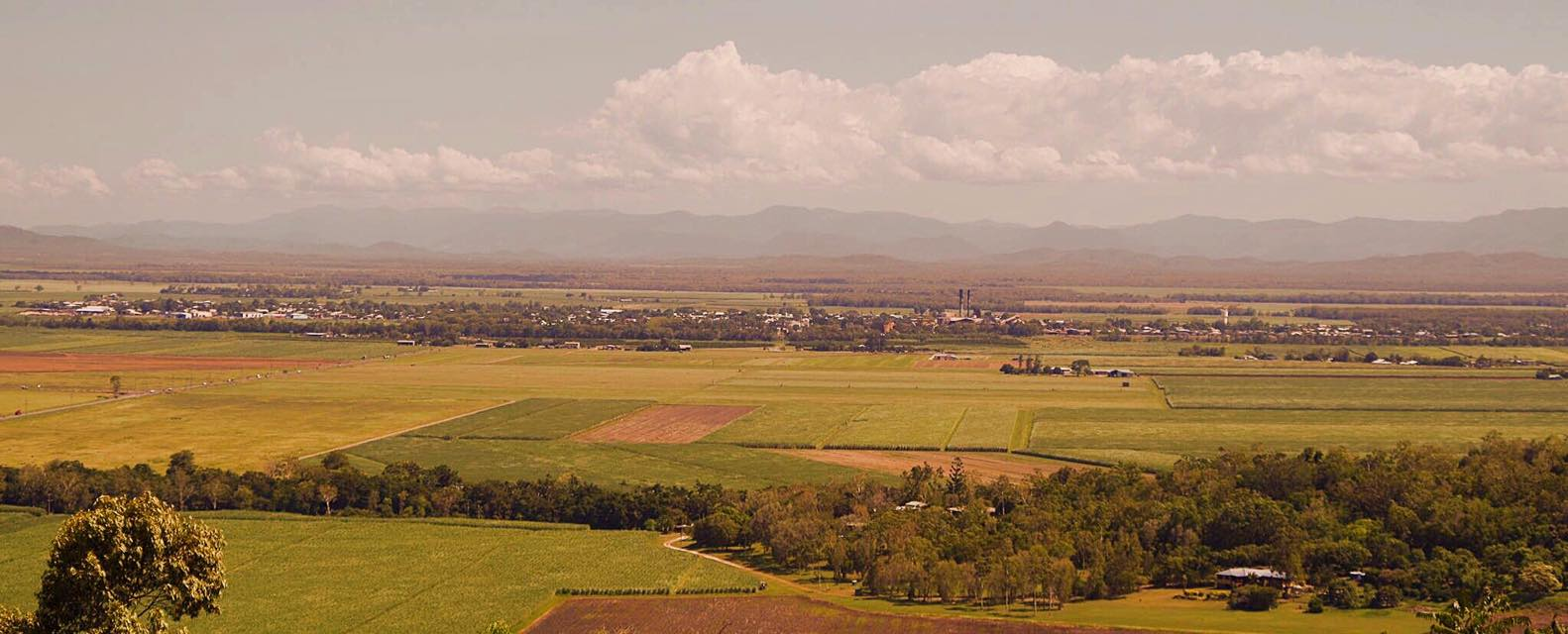 Proserpine viewed from the North.